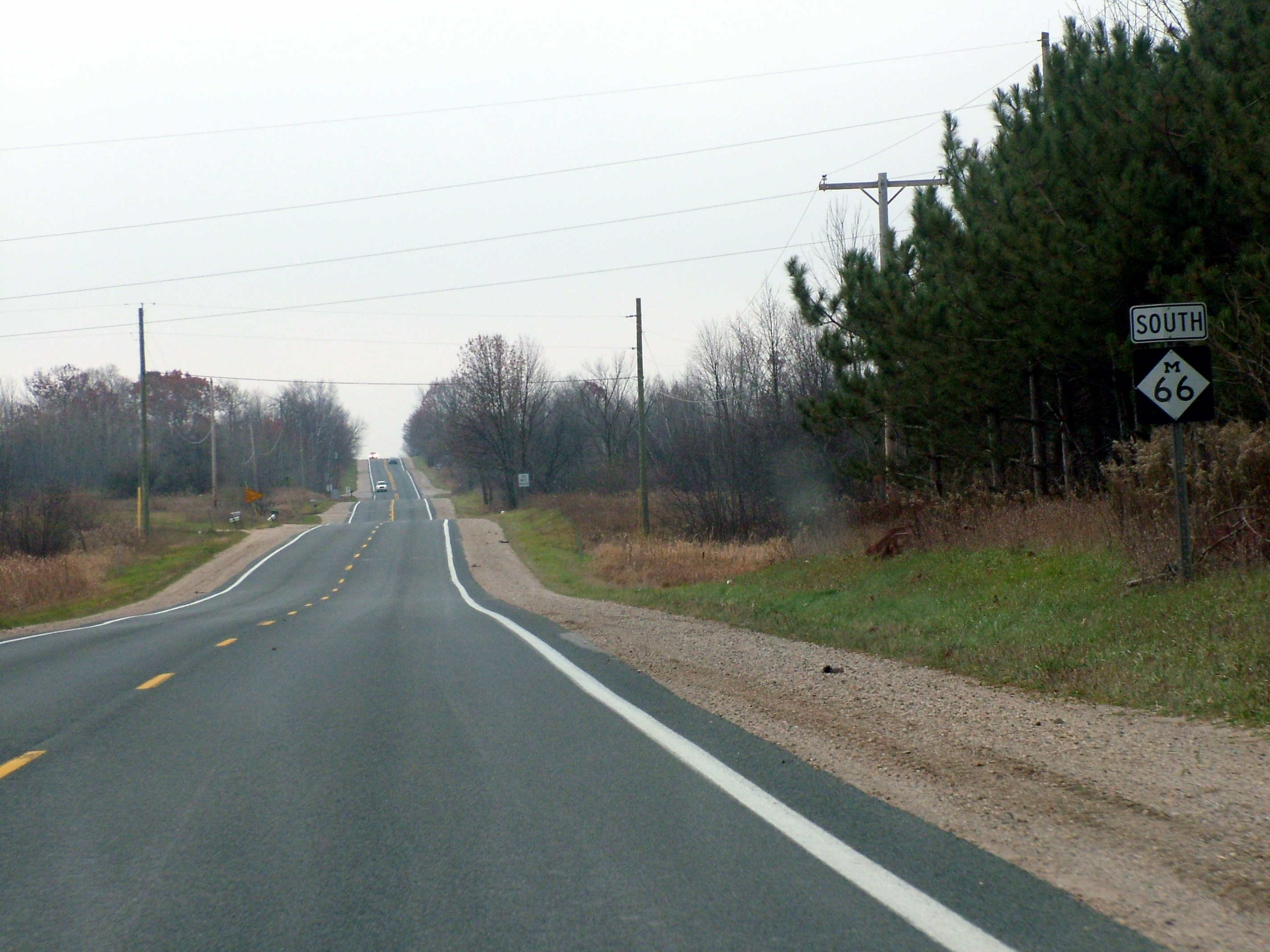 Characteristic shot of M-66 in Michigan